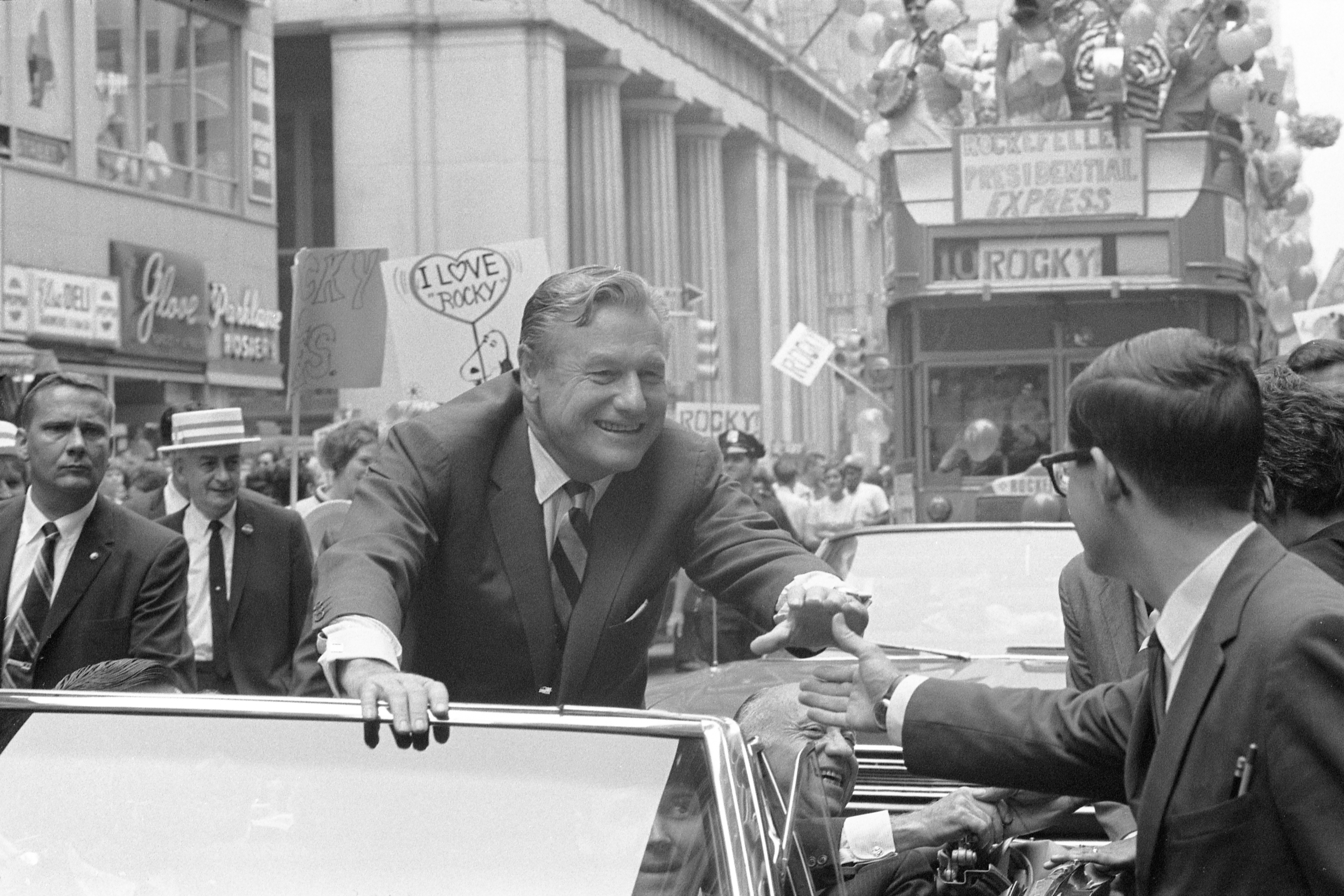 Governor Nelson Rockefeller of New York State, riding in a car on Wall Street, New York City, reaches out to shake a man's hand during his campaign for the Republican presidential nomination in 1968